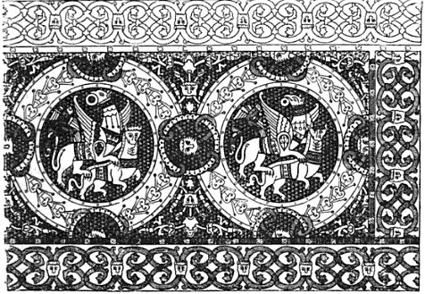 Picture of Cloth of Saint Gereon tapestry depicting pattern